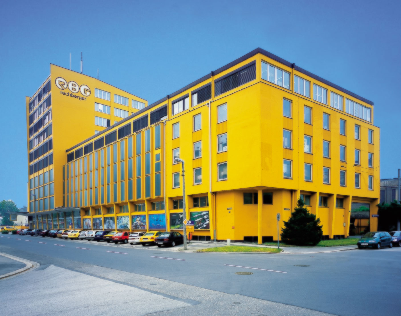 Rechberger Gebäude